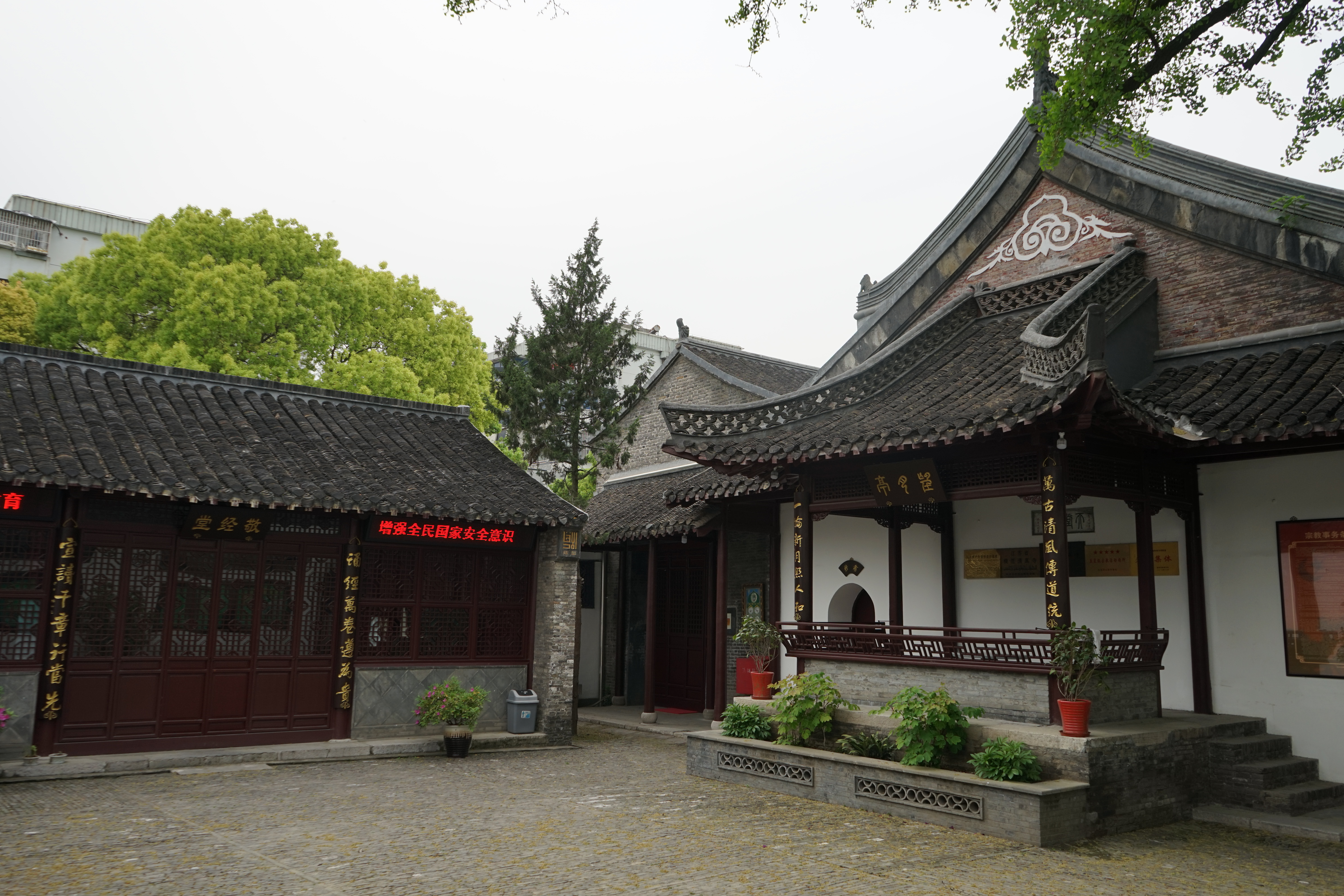 Hall of Respecting the Classics, Crane Mosque, Yangzhou